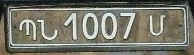 License plate of the Armenian Department of Defense on a Nissan Pathfinder R51, ՊՆ = Պաշտպանության Նախարարություն (Department of Defense)